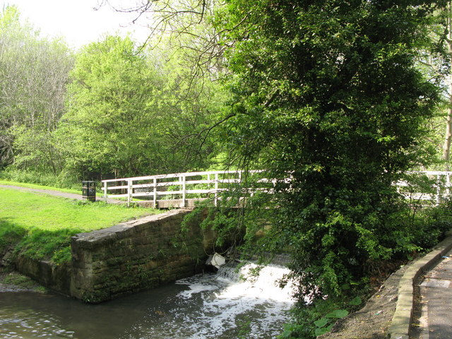 Footbridge over the Ouse Burn in Jesmond Vale